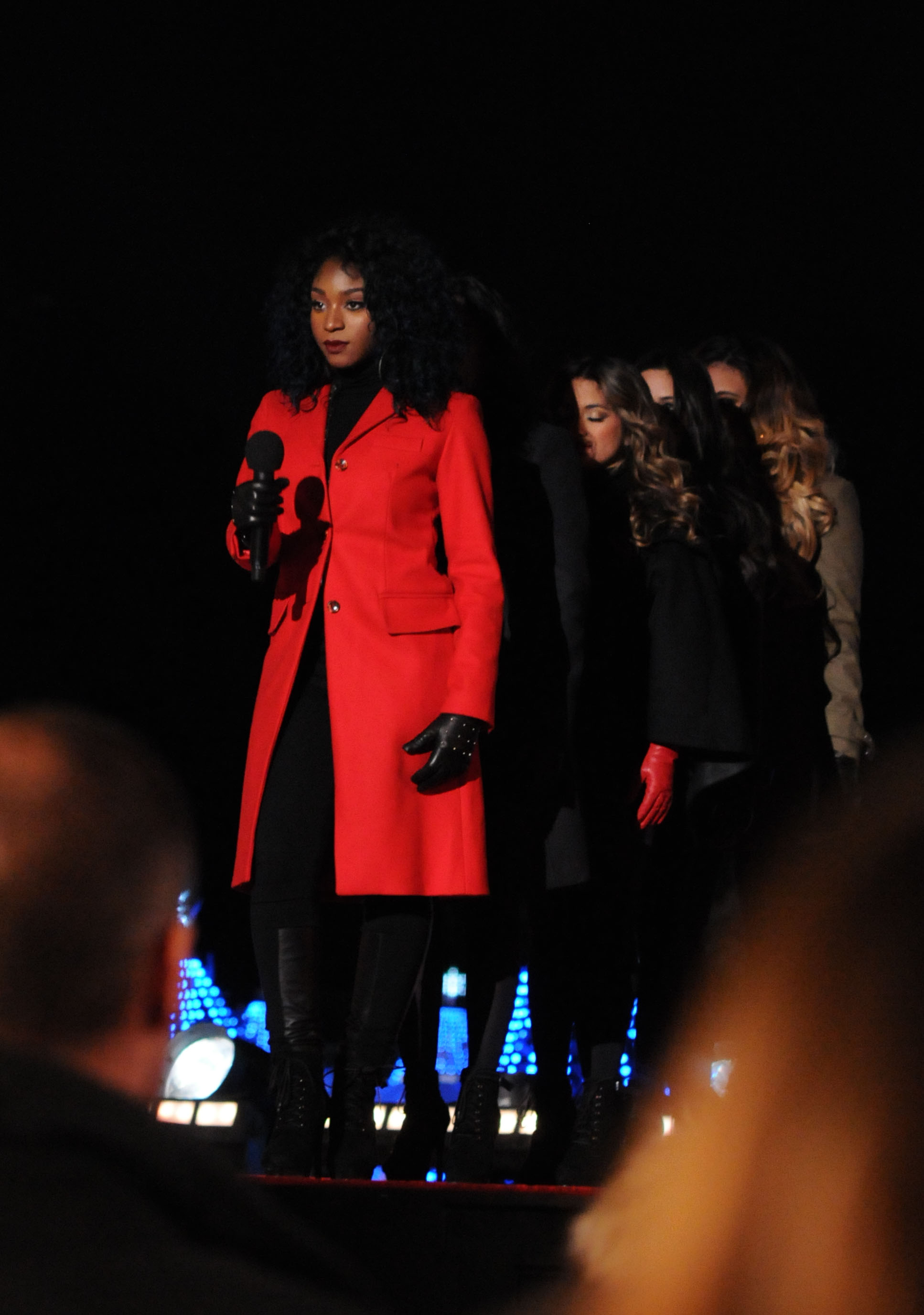 Fifth Harmony performs